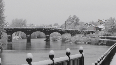 Kilkenny Central Access Scheme